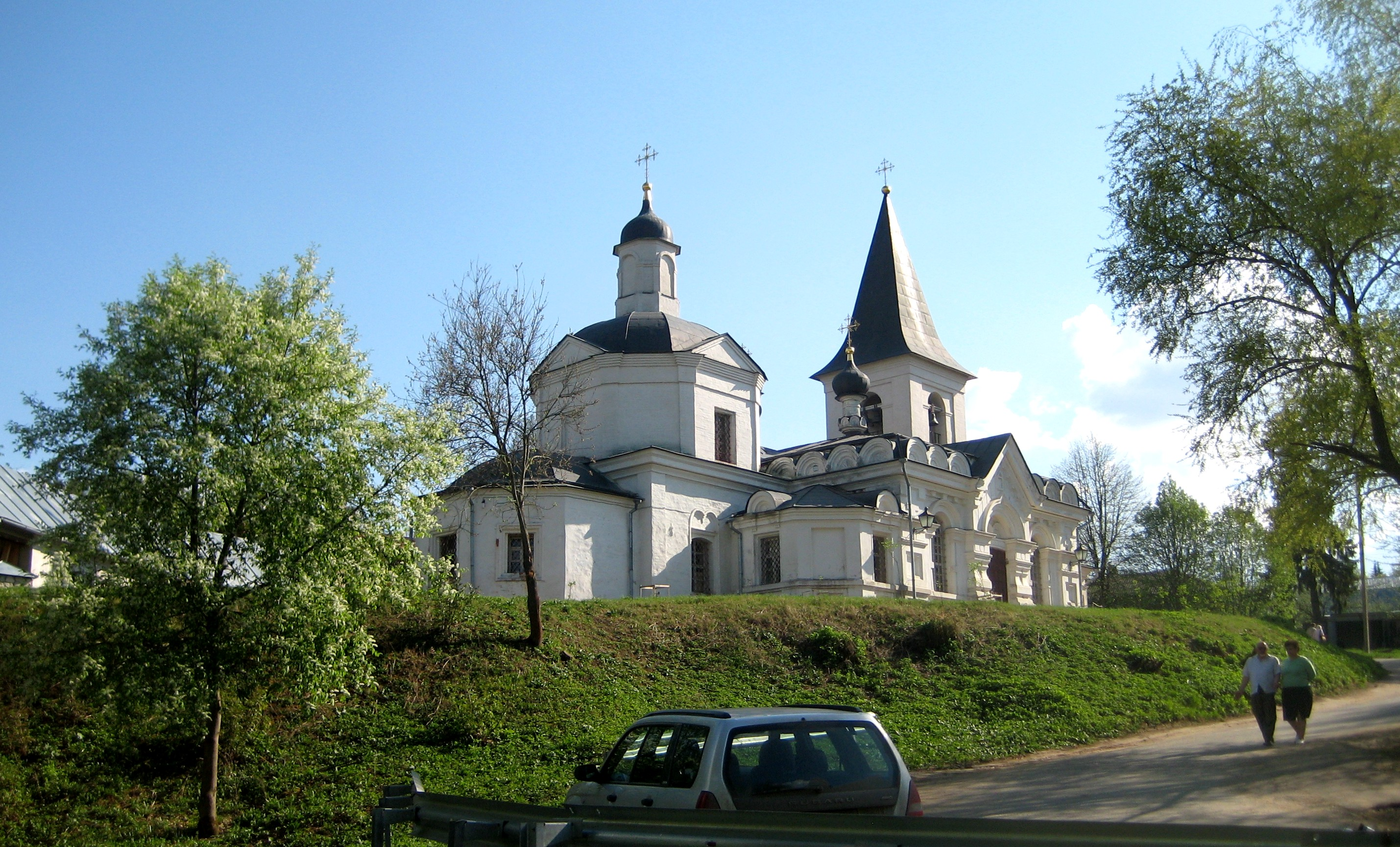 Church of Resurrection in Tarusa, Russia.